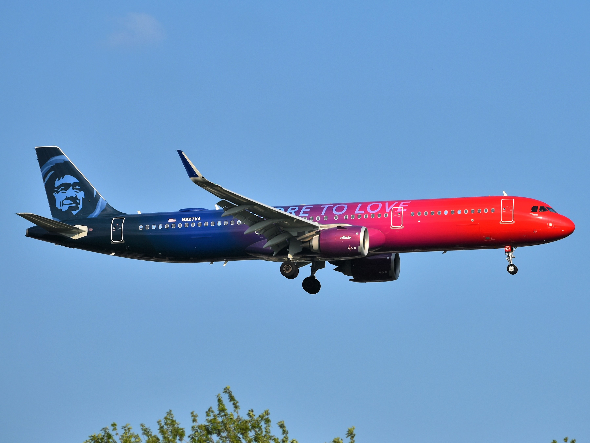 An Alaska Airlines Airbus A321neo is on final approach to John F. Kennedy International Airport, wearing a special "More to Love" special livery